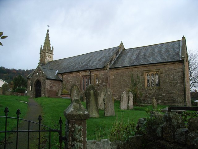 St Helen's parish church, Llanellen, Monmouthshire, Wales